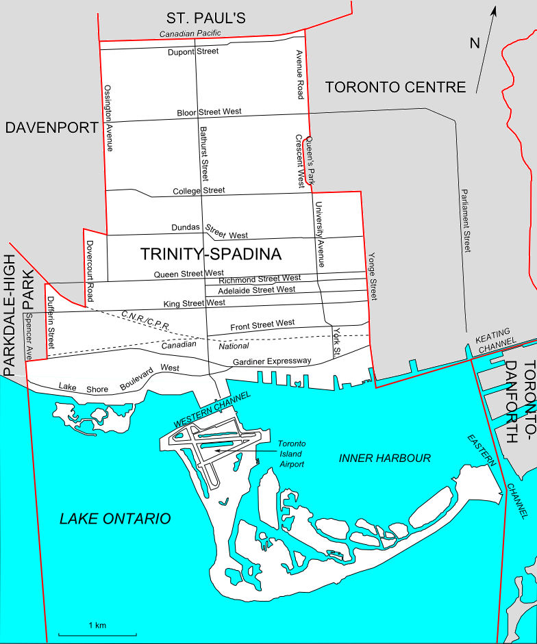 Map of the Ontario federal and provincial riding of Trinity-Spadina (boundaries defined federally in 2003 and adopted provincially in 2007)